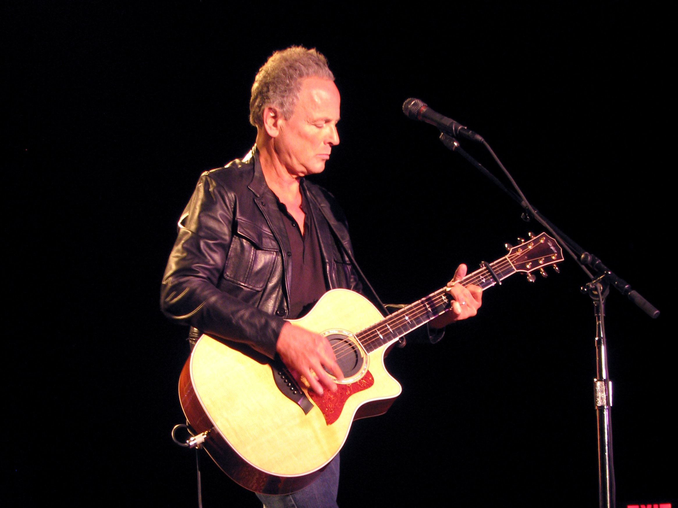 Lindsey Buckingham performing at the Neighborhood Theatre, Charlotte, NC, July 31, 2012